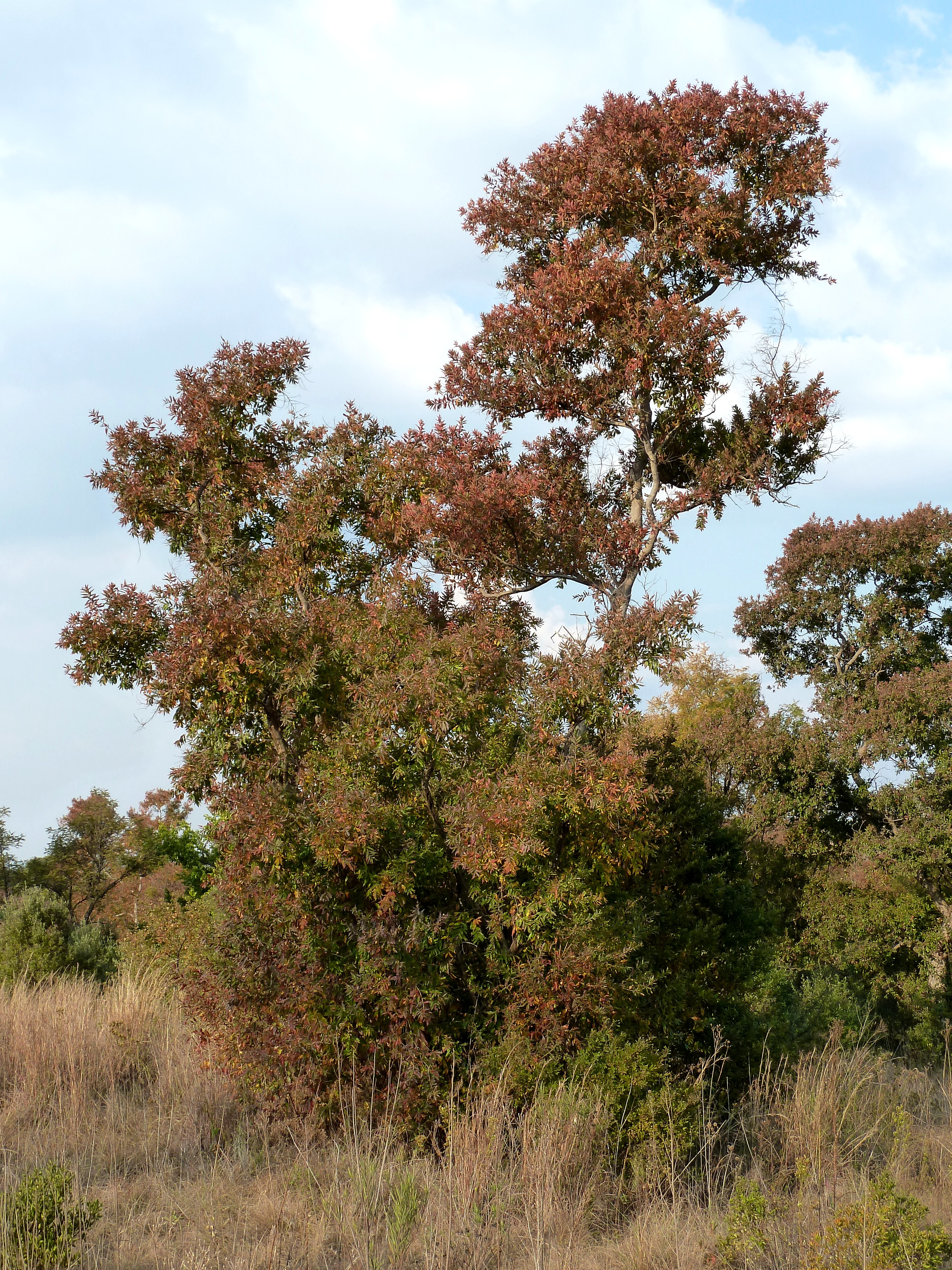 River Bushwillow in autumn foliage at Nkwe near Tierpoort, Pretoria